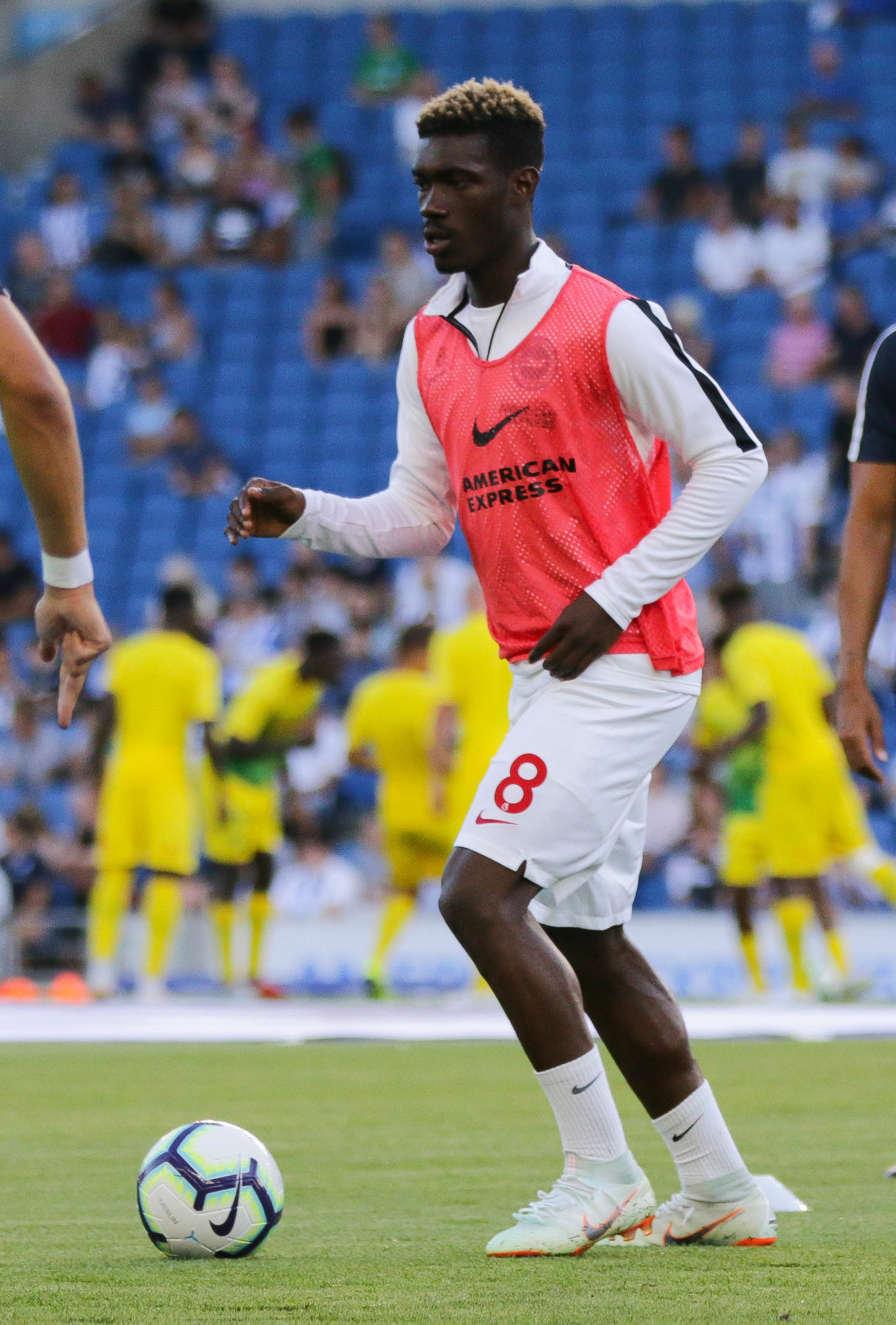 BHA v FC Nantes pre season 03 08 2018-46.jpg